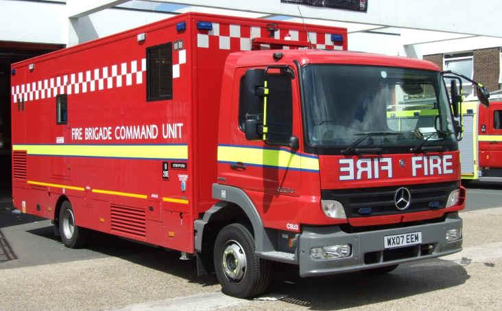 A London Fire Brigade command unit, with "FIRE" in mirror writing ("ERIF").